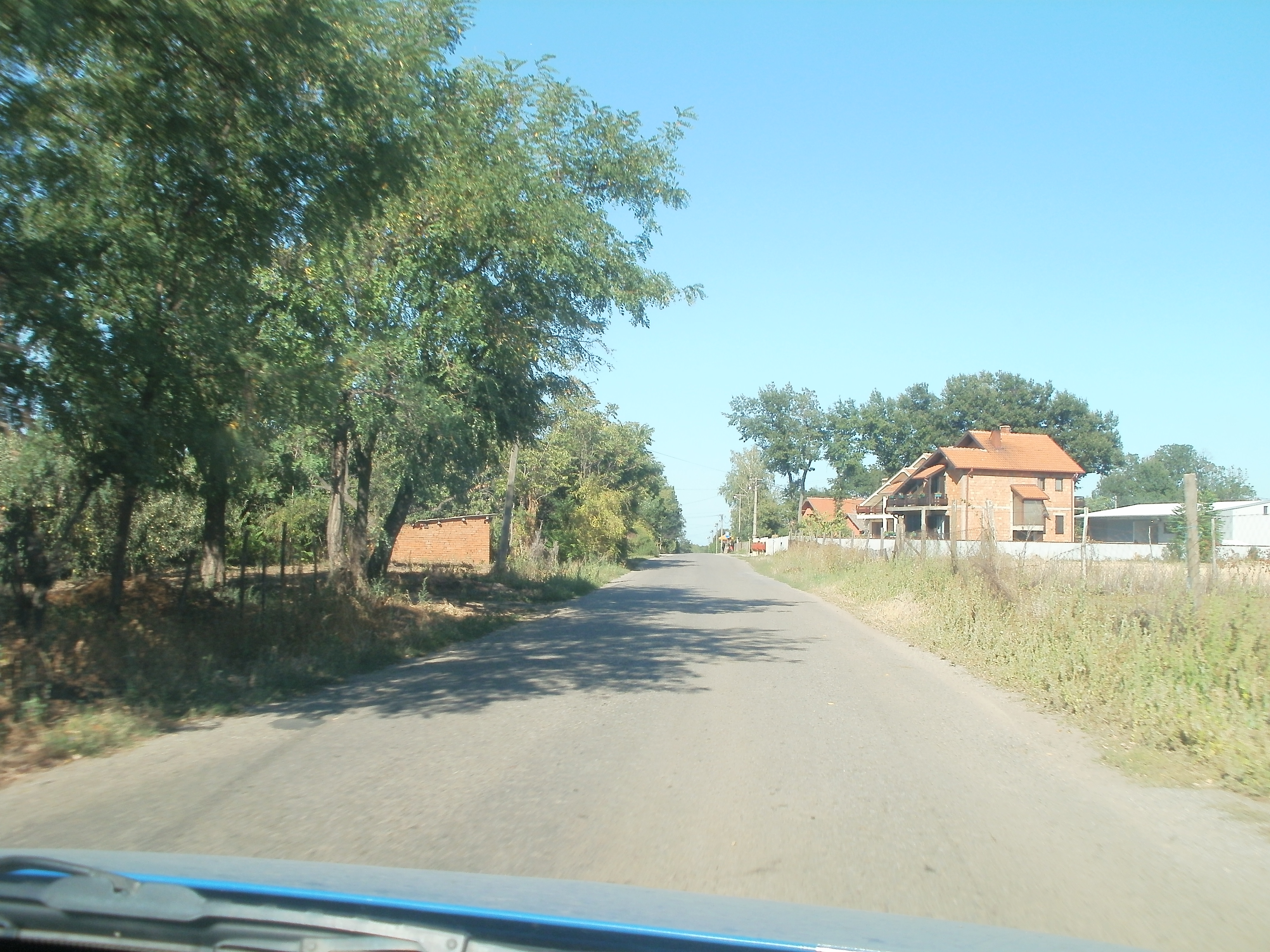 Drugovac, Street